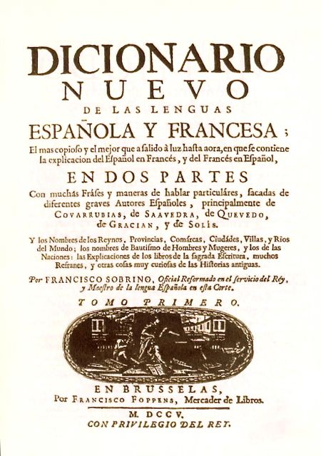 Front cover of the book: "Diccionario nuevo de las lenguas española y francesa" (1705), by Francisco Sobrino